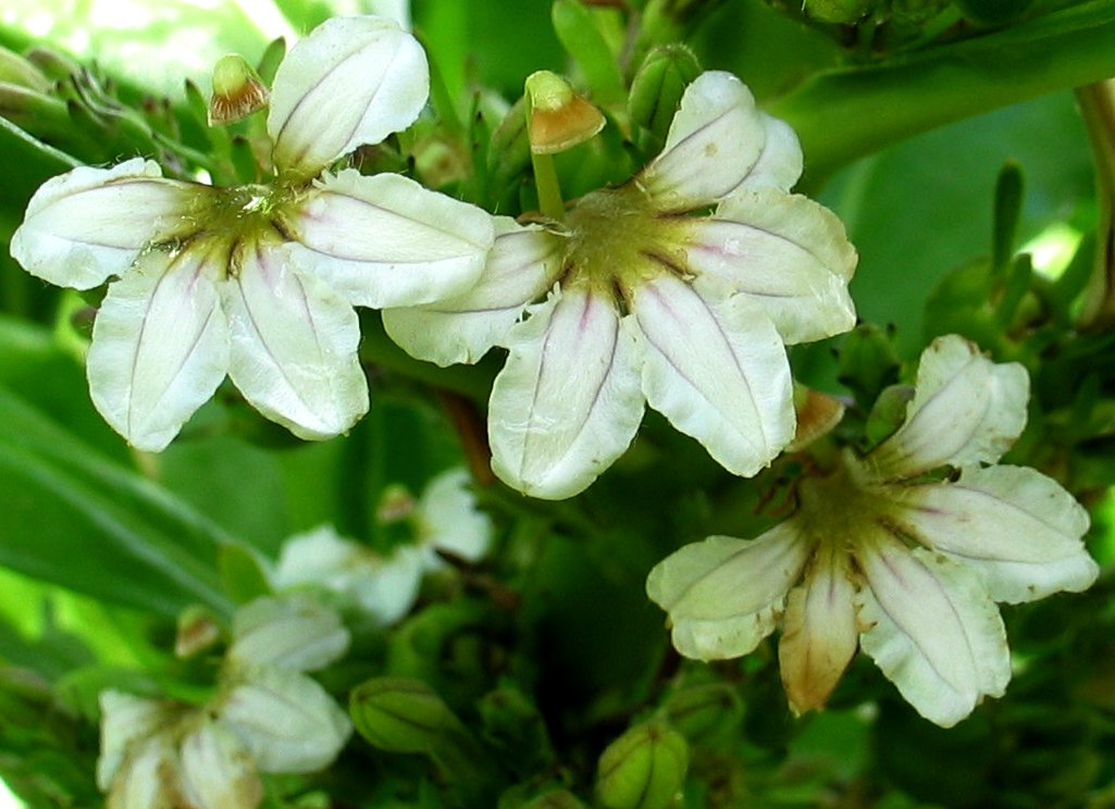 [syn. Scaevola taccada] Naupaka kahakai or Beach naupaka Goodeniaceae Indigenous to the Hawaiian Islands Oʻahu (Cultivated) Prostrate form. NPH00001